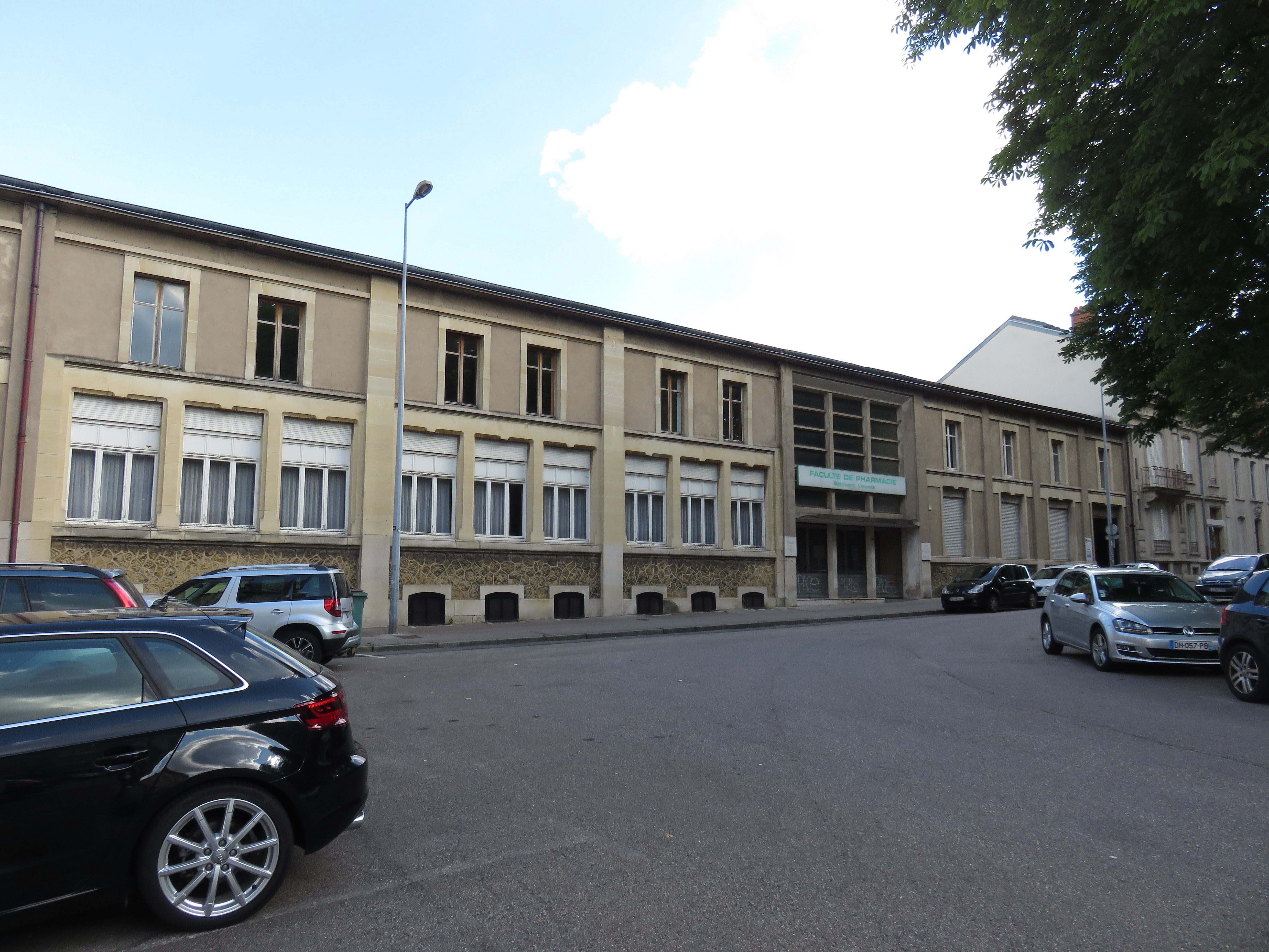 Lionnois Building of the University of Lorraine Faculty of Pharmacy in 2018